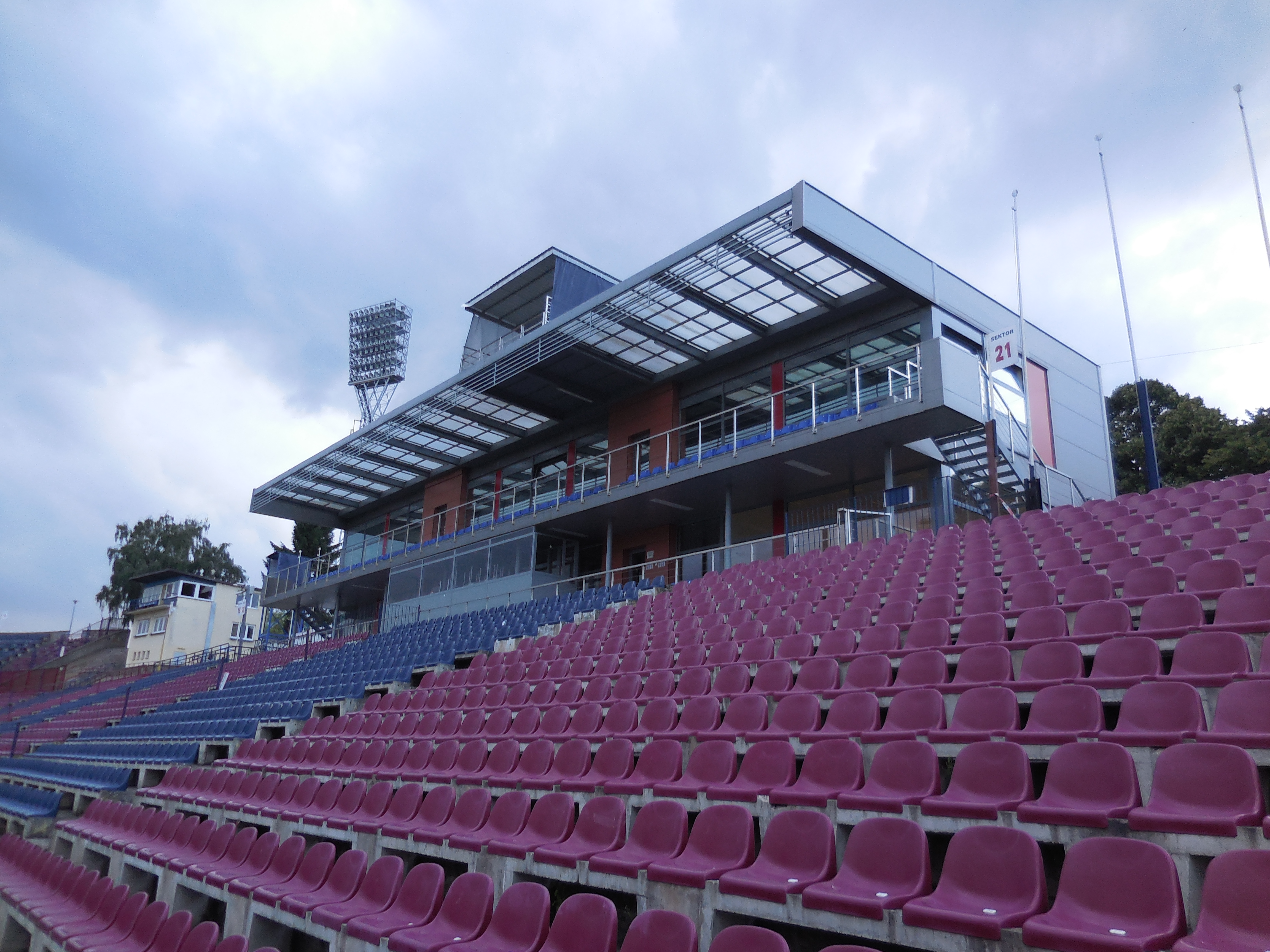 North stand of Stadion Florian Krygier in 2015.